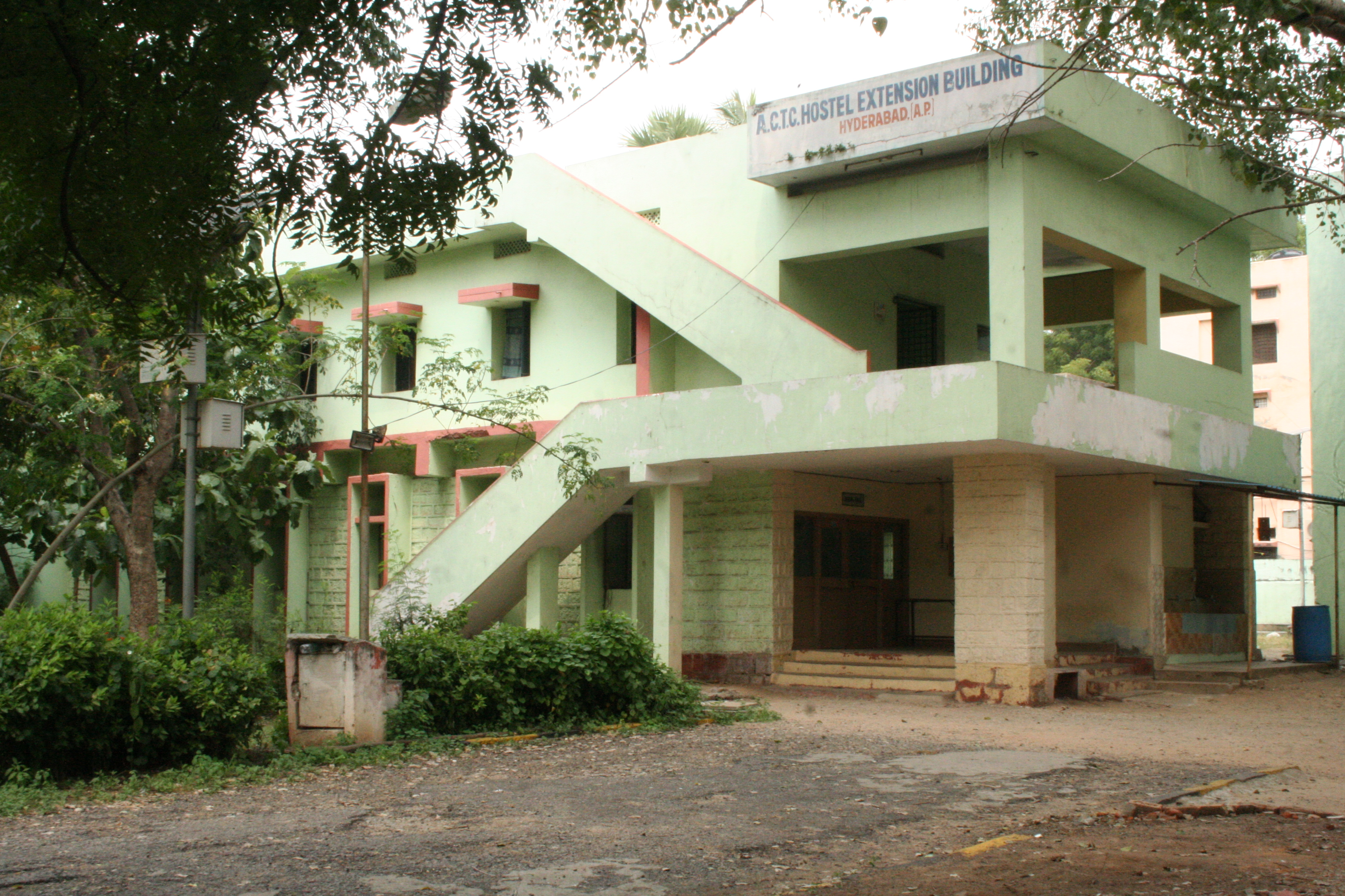 ACTC Dining Hall